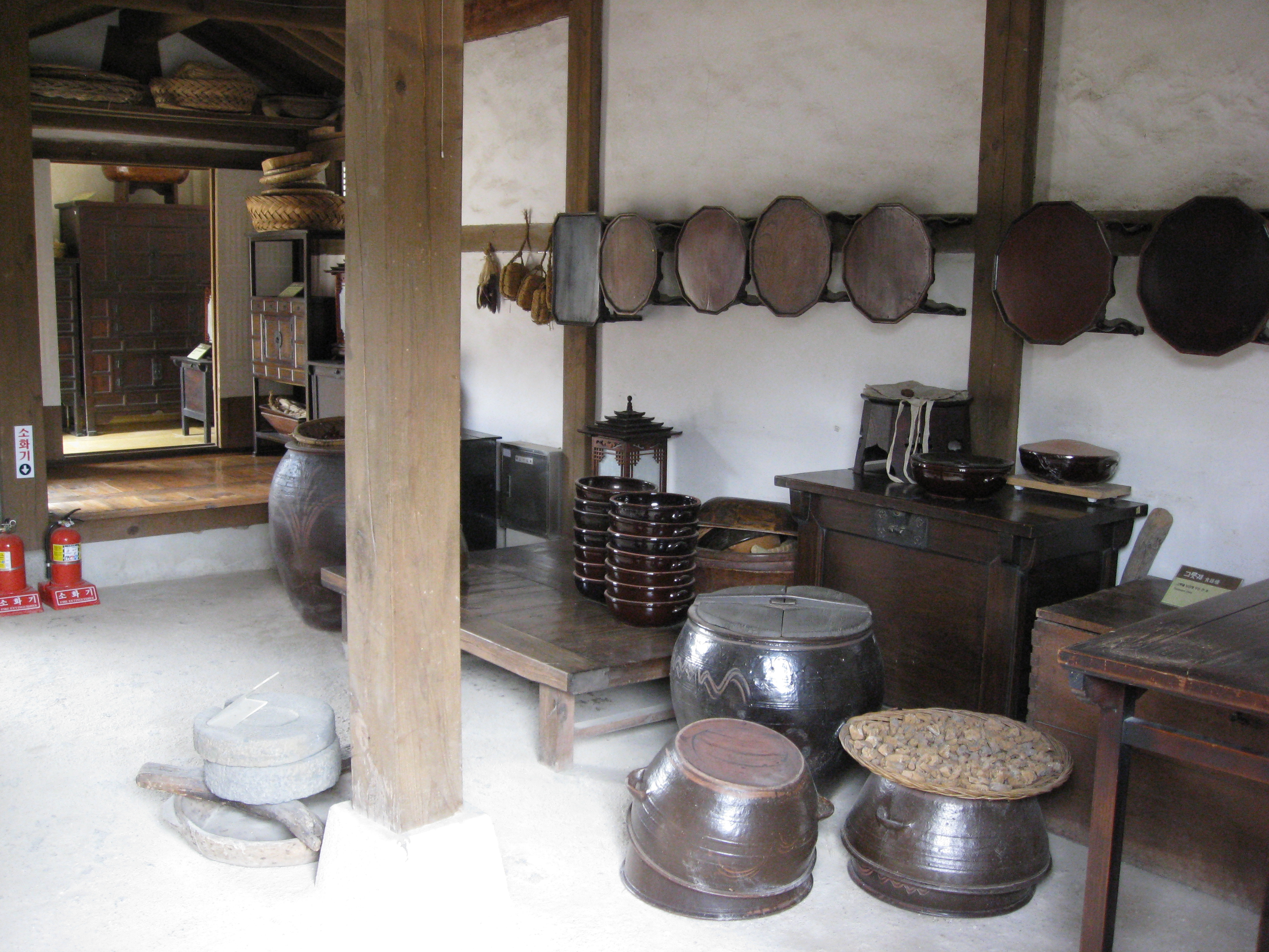 An old-style kitchen